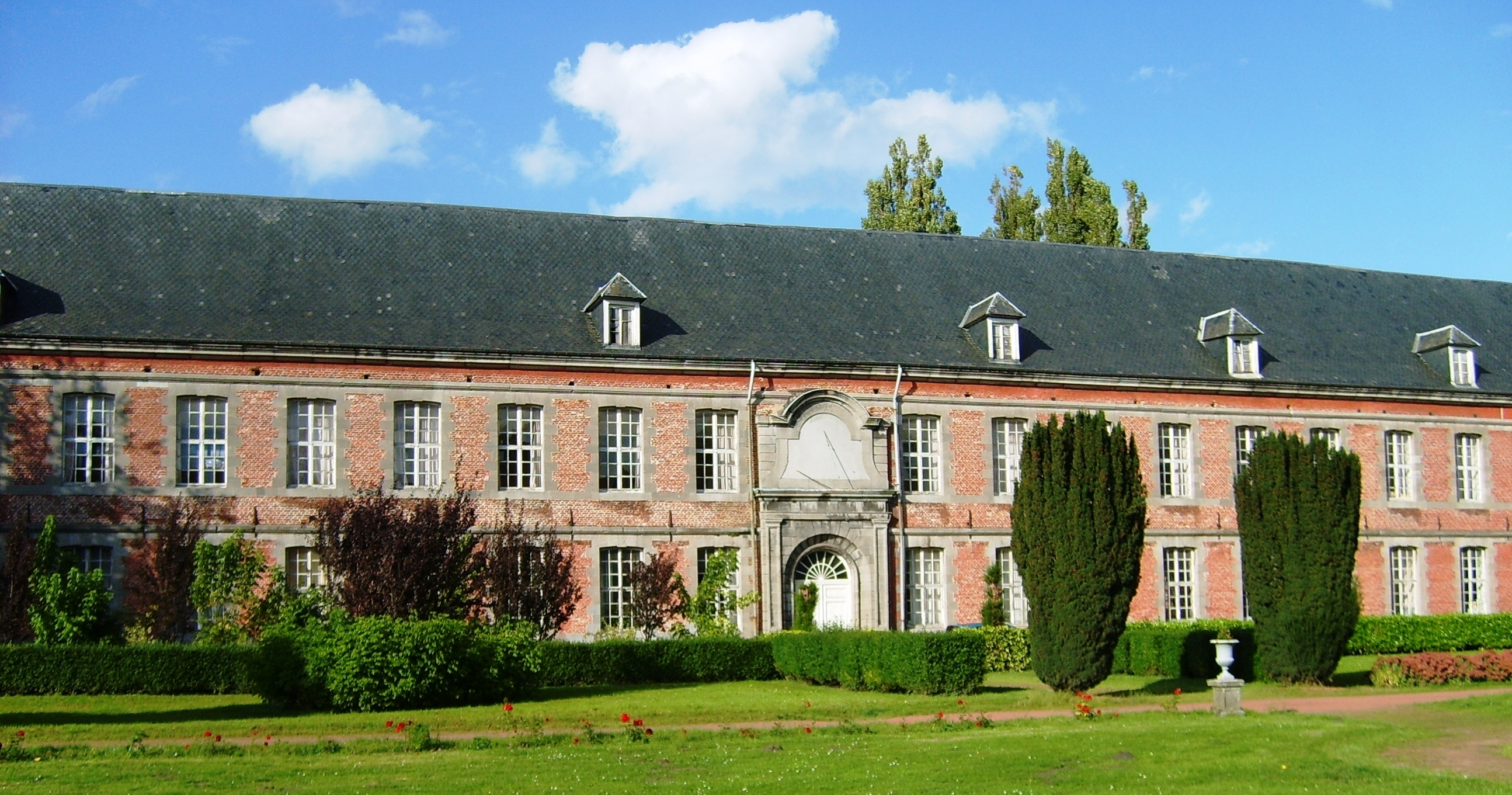 Bonne-Espérance Abbey, Vellereille-les-Brayeux (Belgium), the left wing of the main building (18th century).